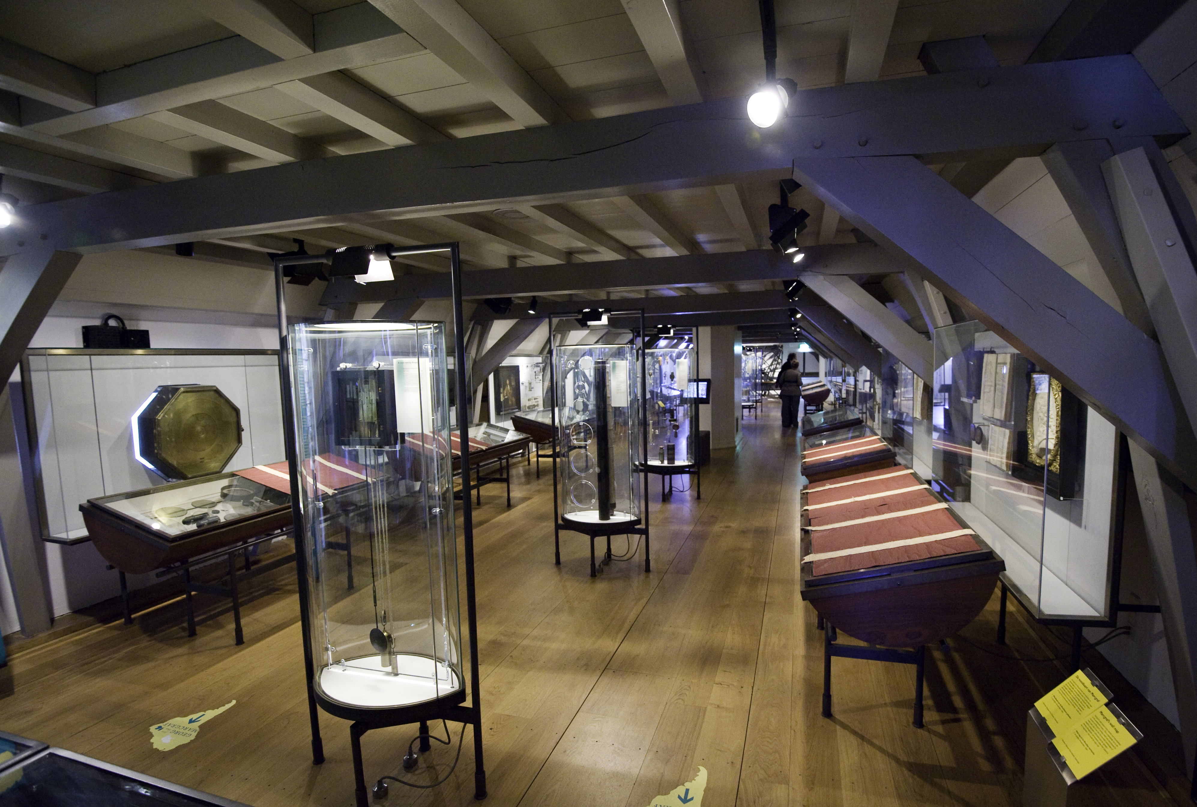 17th century science in Boerhaave museum Leiden